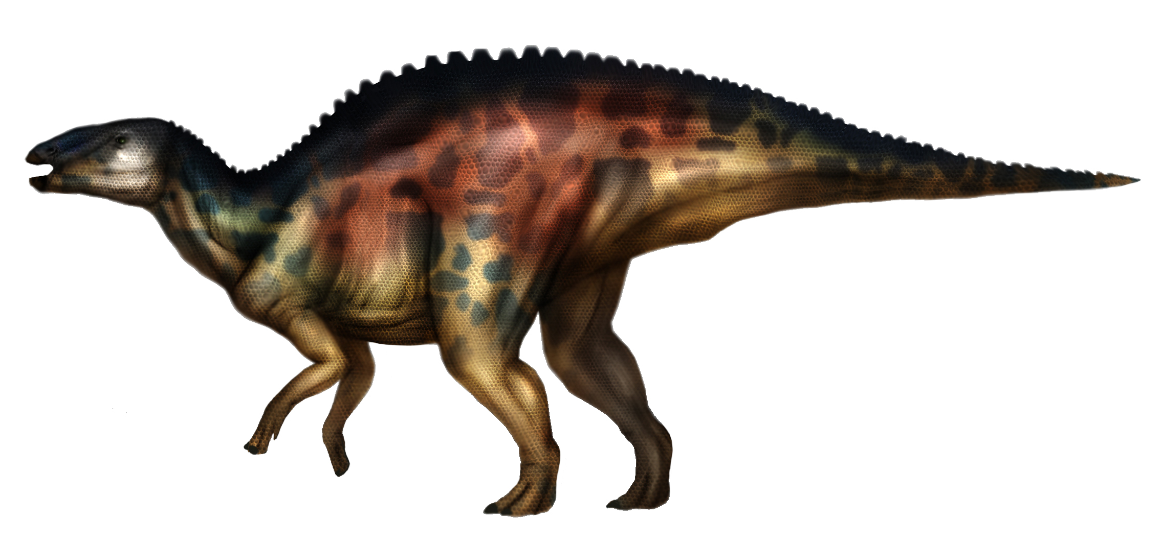 Huehuecanauhtlus tiquichensis, a hadrosauroid dinosaur from the Santonian (Late Cretaceous) of Michoacán, Mexico